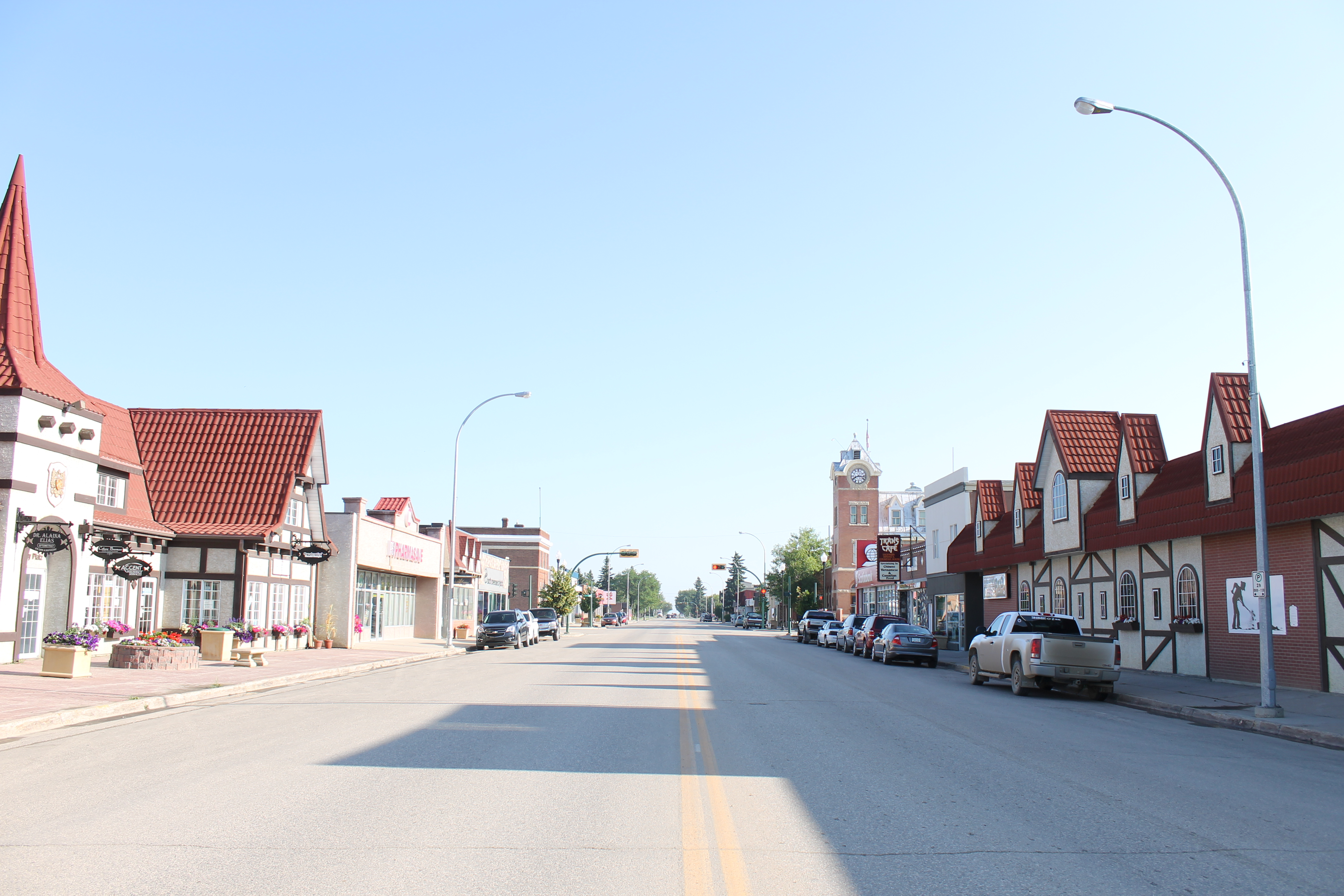 A updated photo of Humboldt, Saskatchewan Main Street/Downtown.